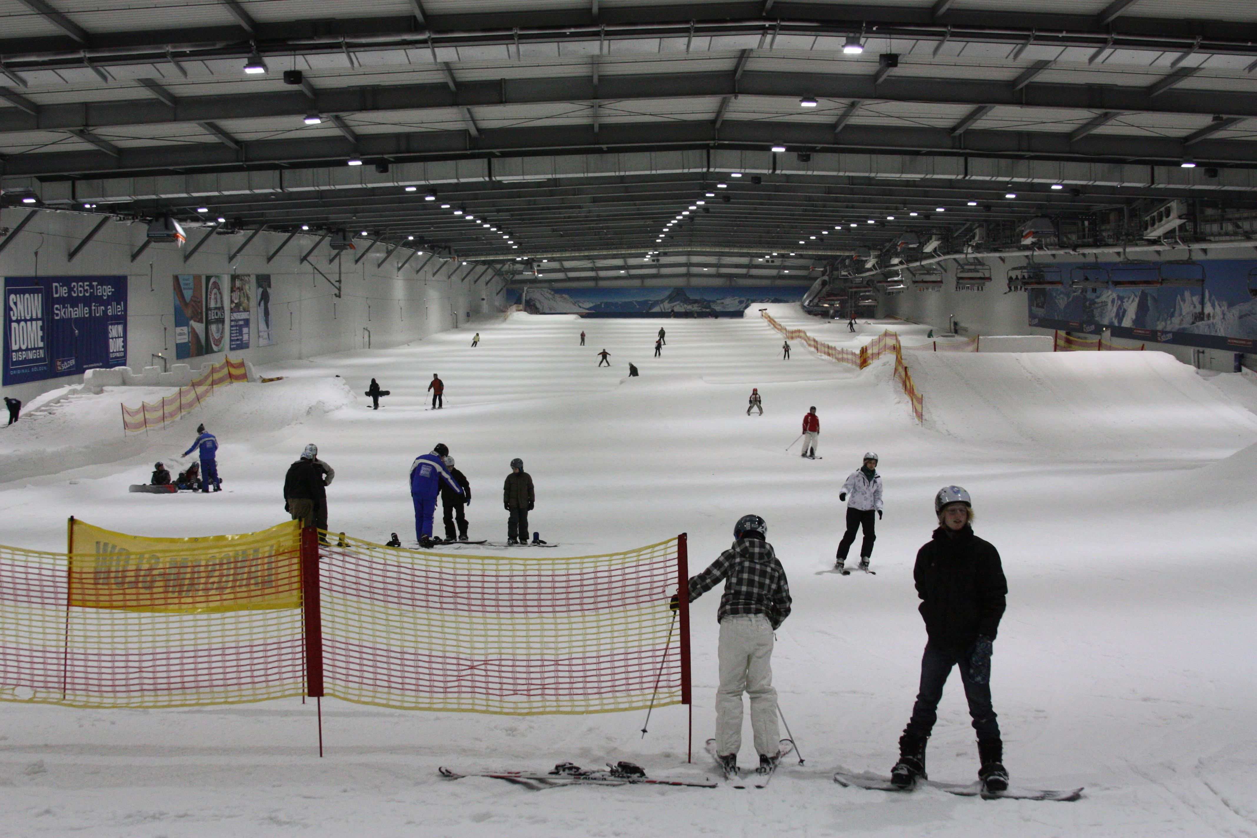 Snowdome Bispingen